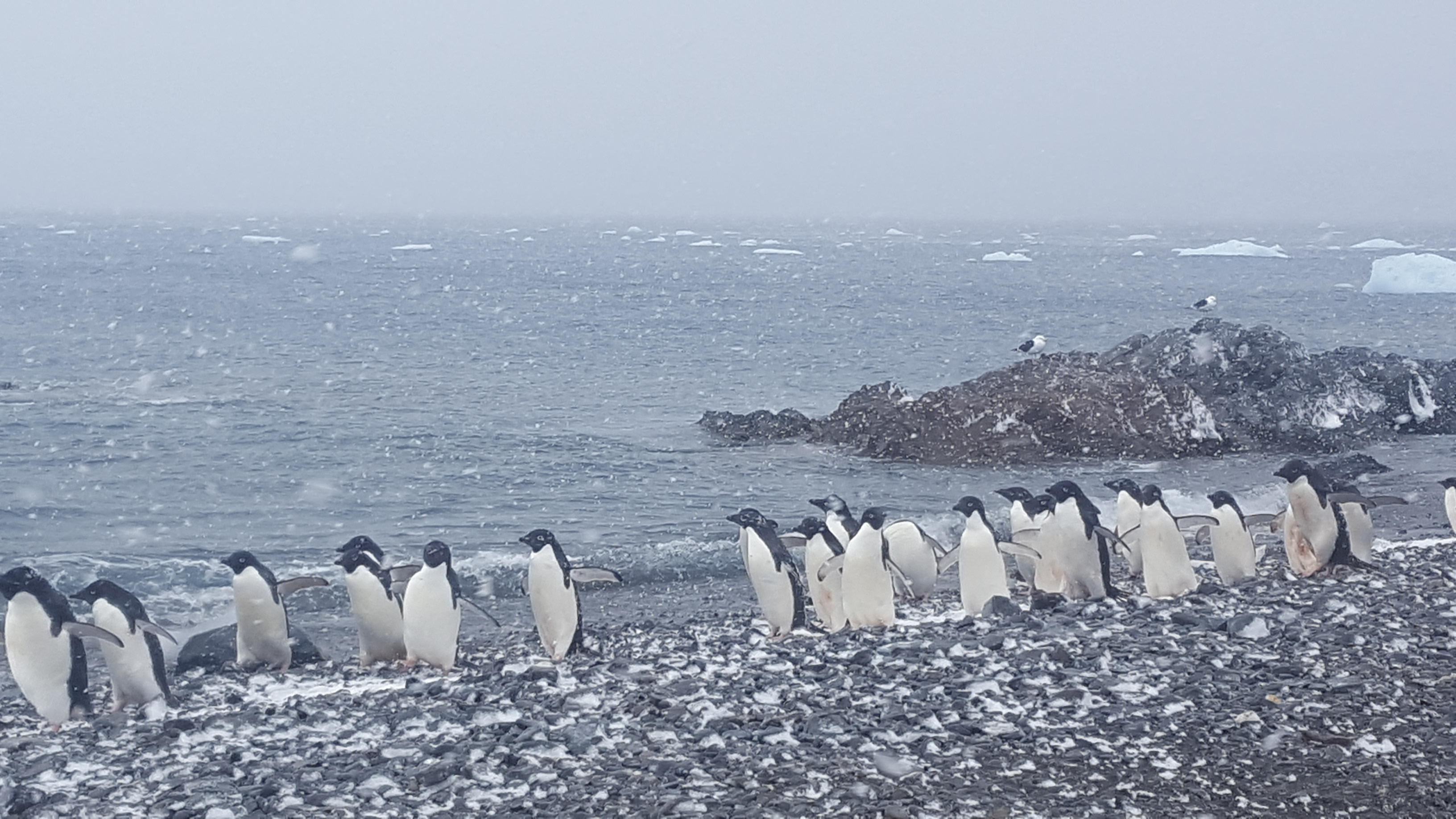 Tay Head is a gravel spit with many Adelie penguins